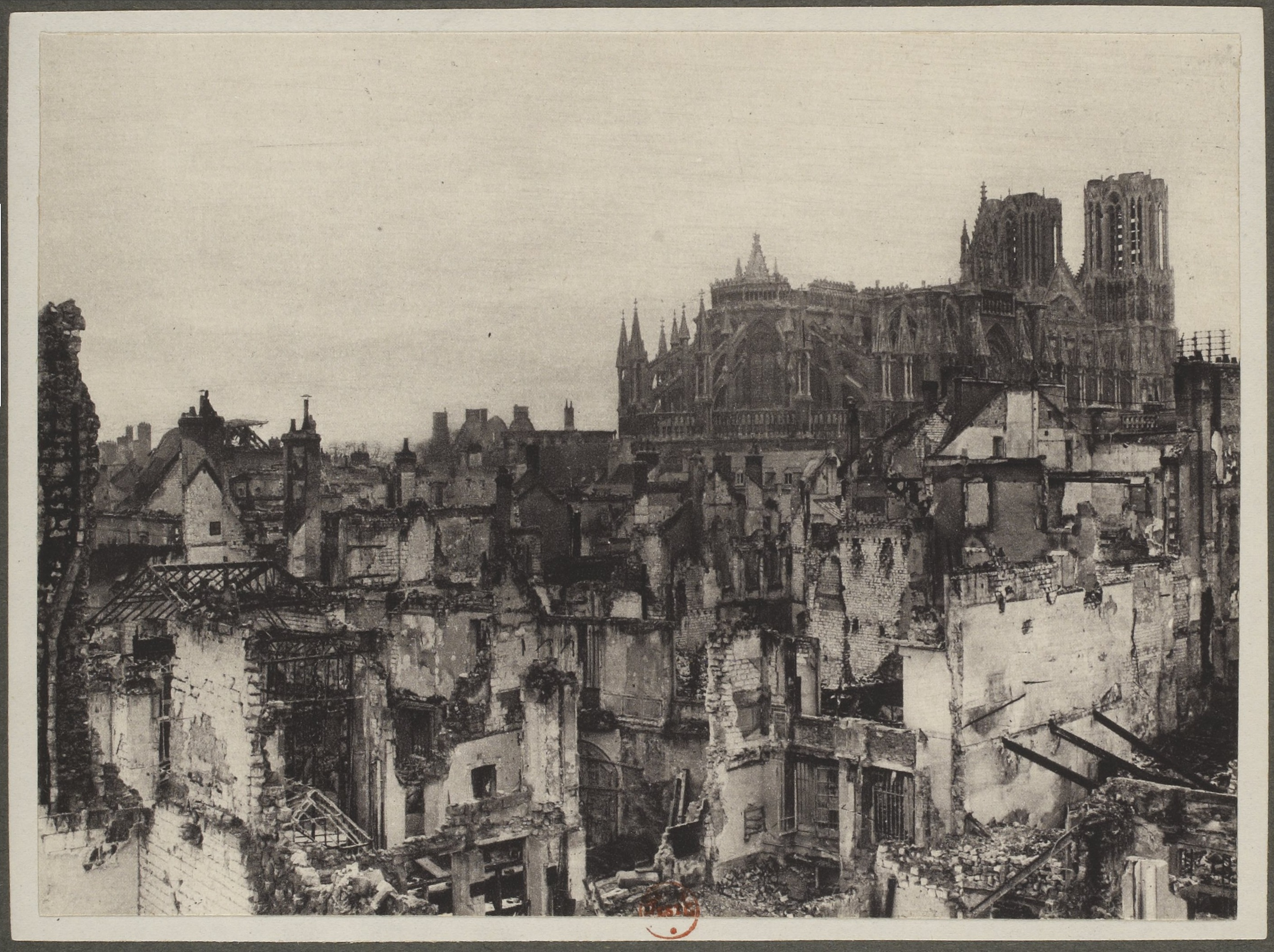 The city of Reims and its famous cathedral in an undated picture from the First World War, probably taken by the end of 1916. The cathedral was deliberately shelled by the German forces, an act that would currently qualify as a war crime (but not in 1916).